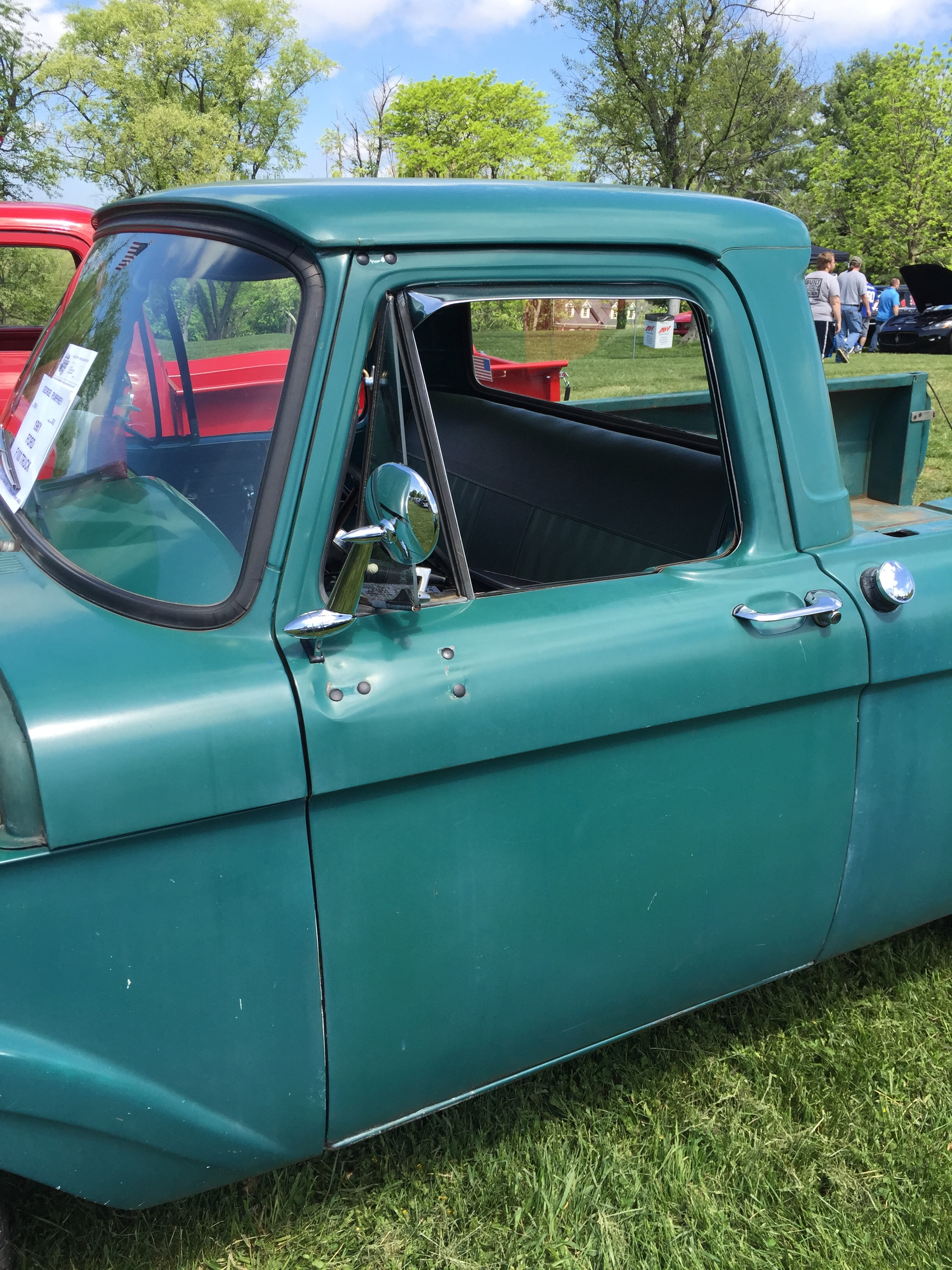 1961 Ford F100 Unibody (integrated the cab and the box into a single body) design. This is a factory original pickup truck. Photographed at 2015 Shenandoah Antique Automobile Club of America (AACA) meet.